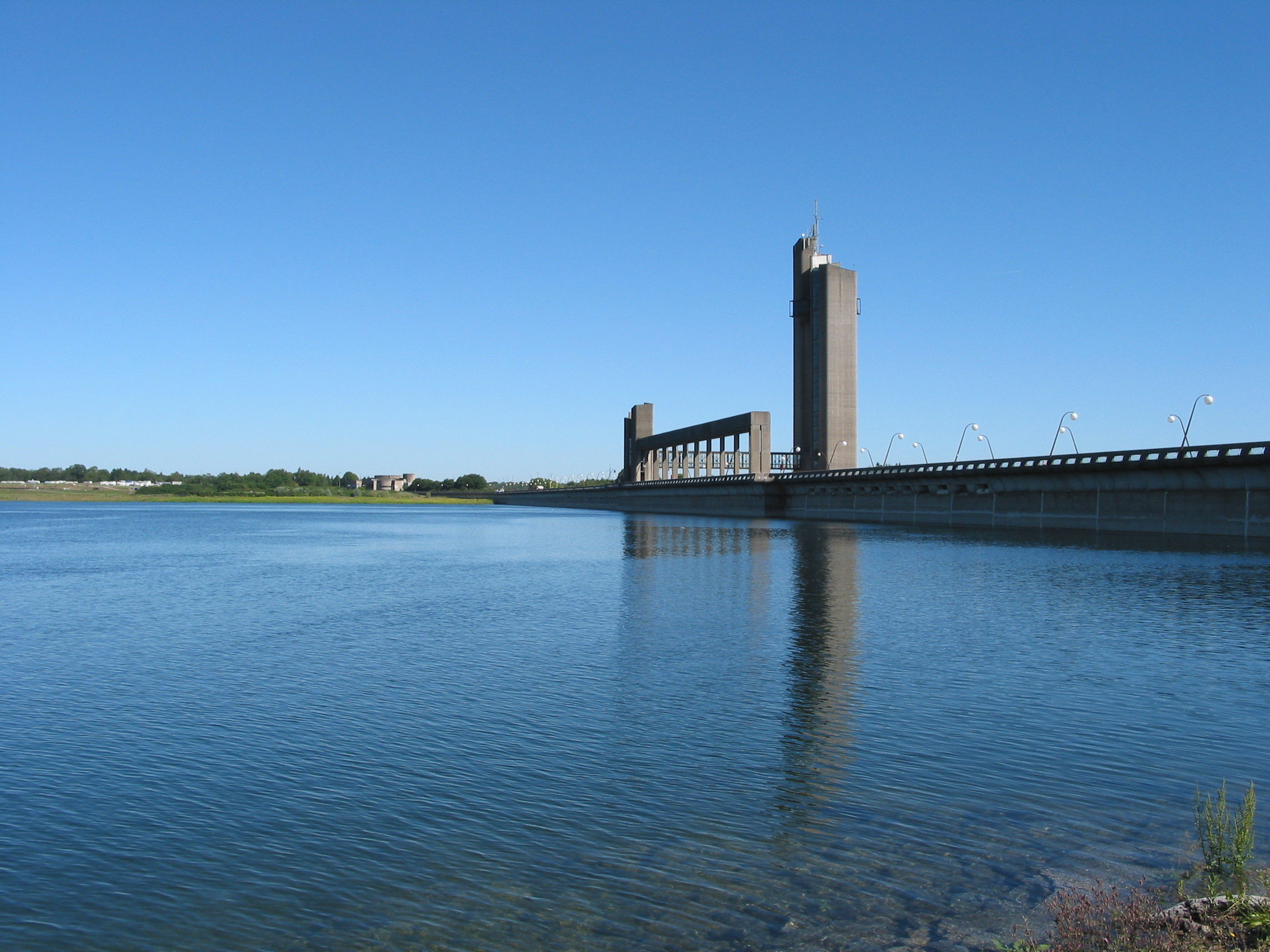 Boussu-lez-Walcourt (Belgium), the Platte-Taille lake, the dam and the scenic tower.